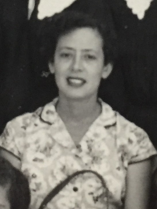 Kamran Aziz, Turkish Cypriot pharmacist and composer, in 1954. The photograph was taken at Victoria Girls' High School in Nicosia. It belongs to me and I have the rights to it, which I hereby release.